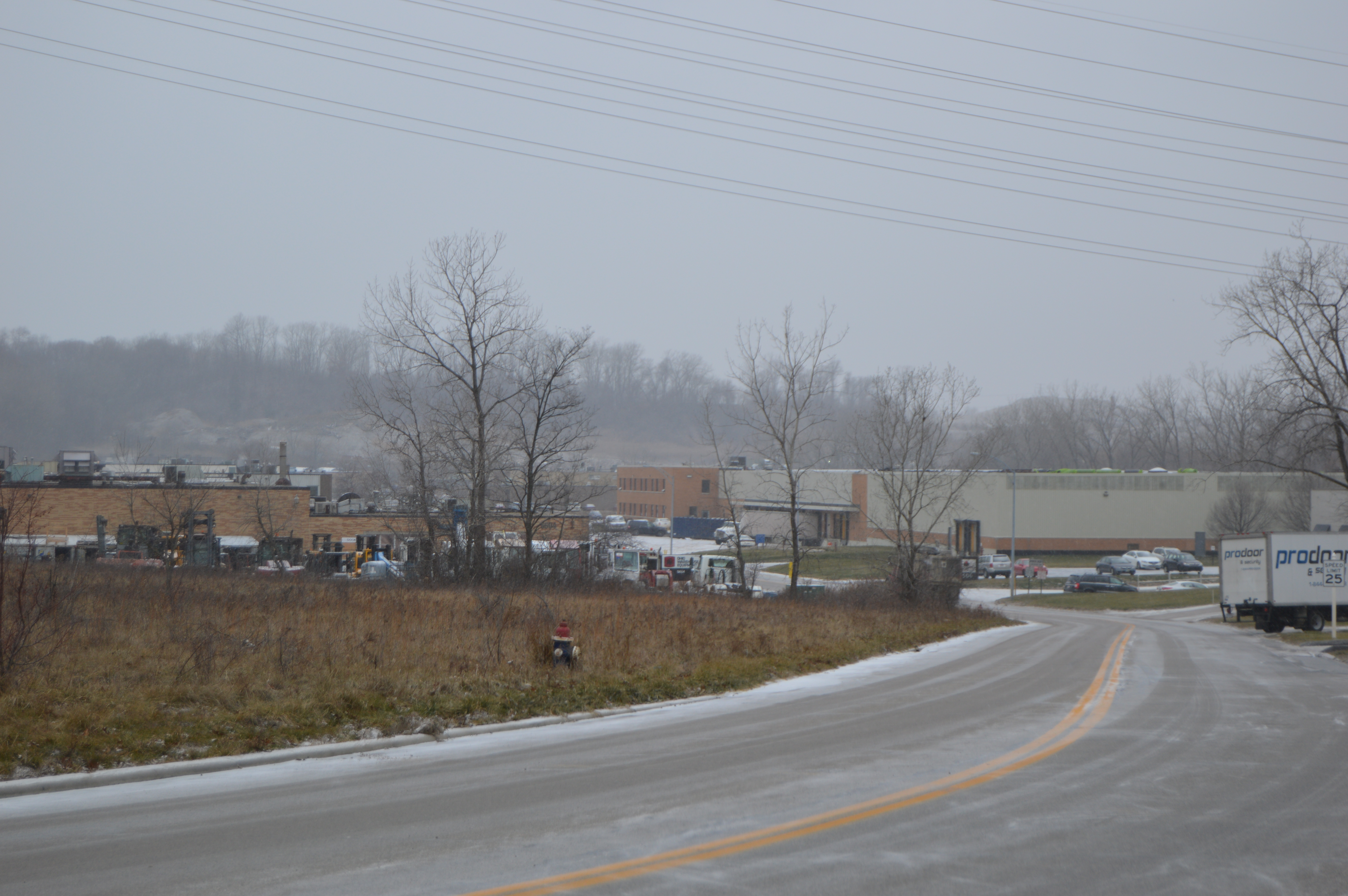 Warehouses on Valley Belt Road in Brooklyn Heights, Ohio, United States.